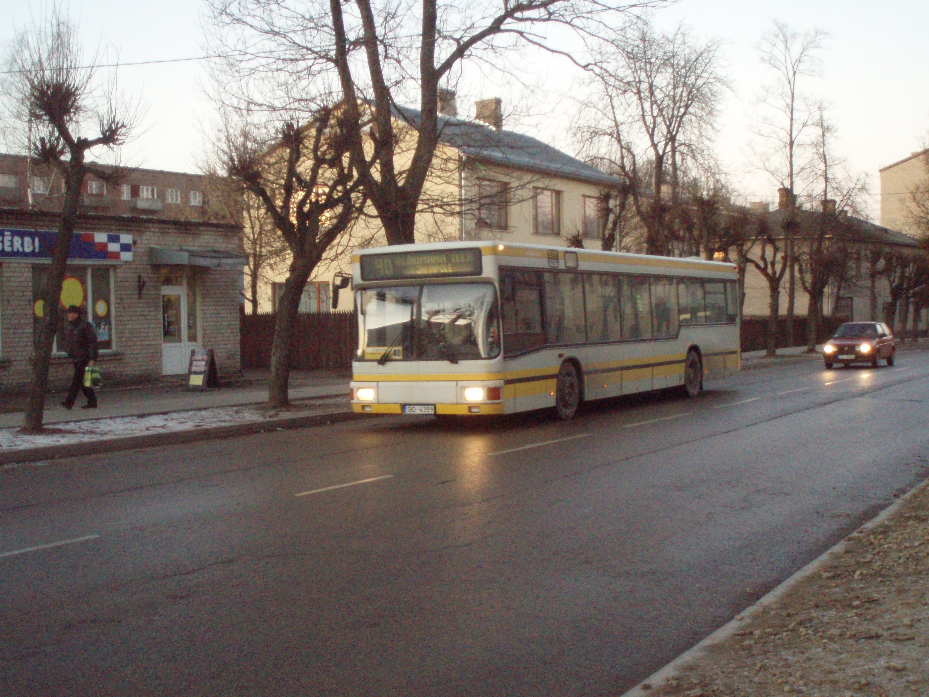 Bus 40 on Dārzu Street in Rēzekne, Latvia.